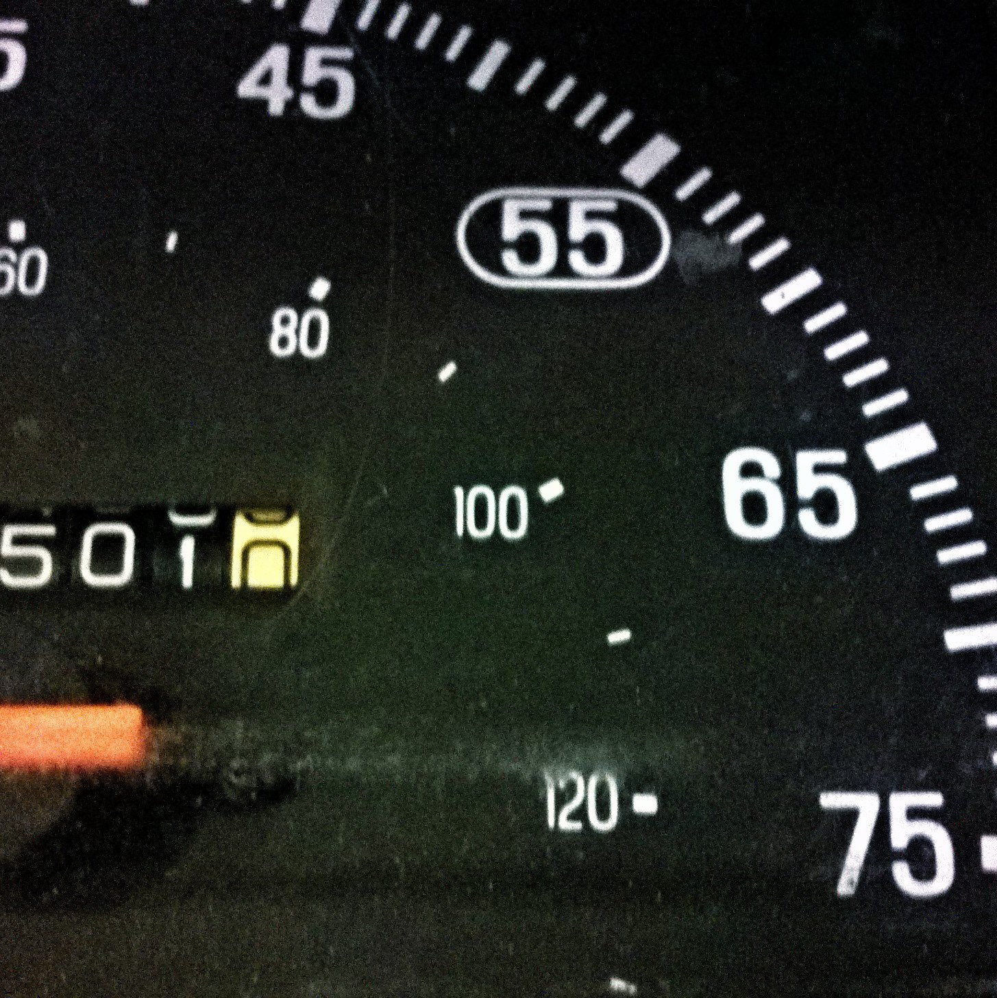 A dashboard of a 1993 Ford Festiva having the (55) MPH shown as the highway speed.